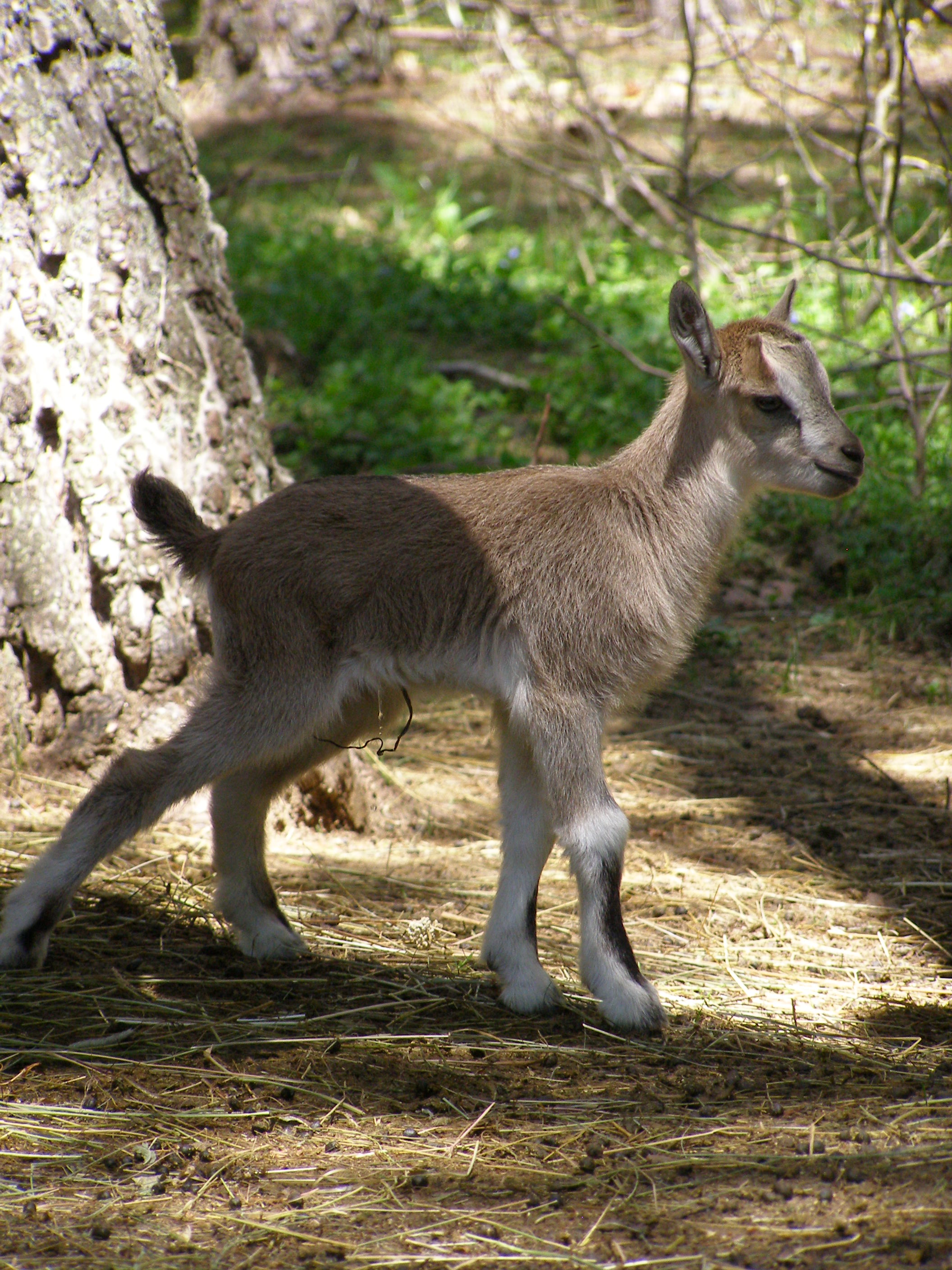 Bezoar Goat